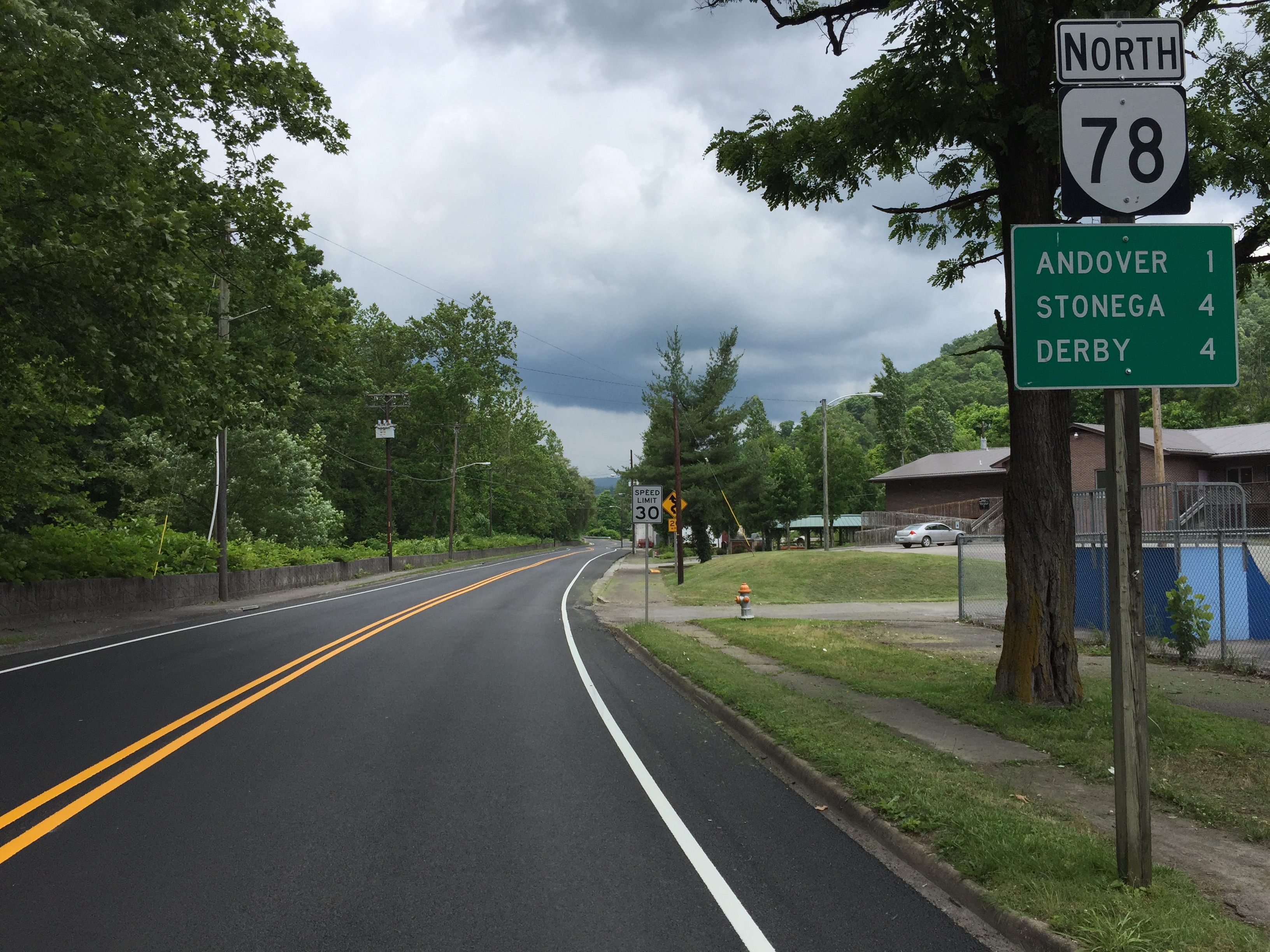 View north along Virginia State Route 78 (Callahan Avenue) just north of U.S. Route 23 Business (Main Street) in Appalachia, Wise County, Virginia